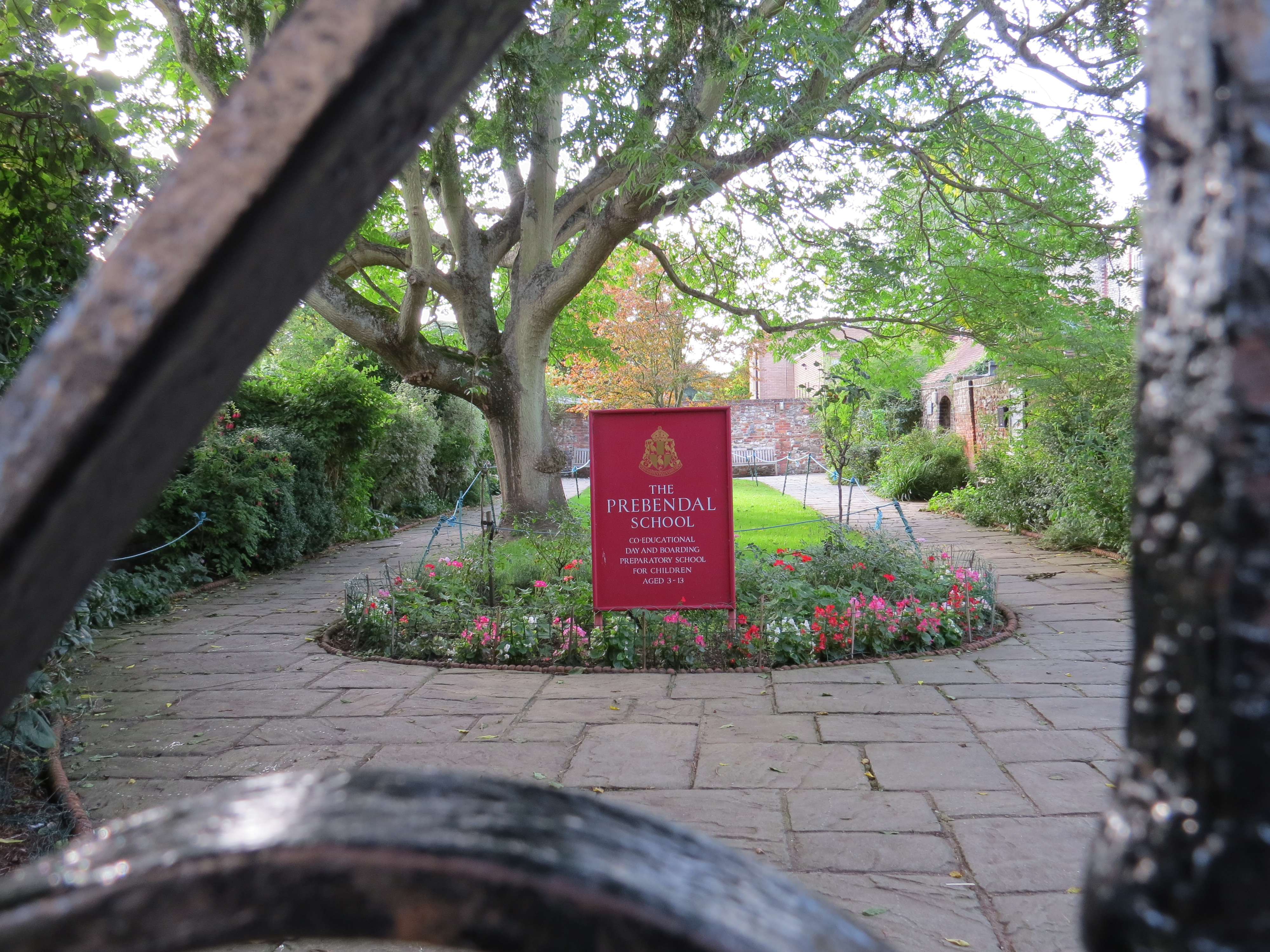 Image of the Memorial Garden of the Prebendal School, Chichester, UK.